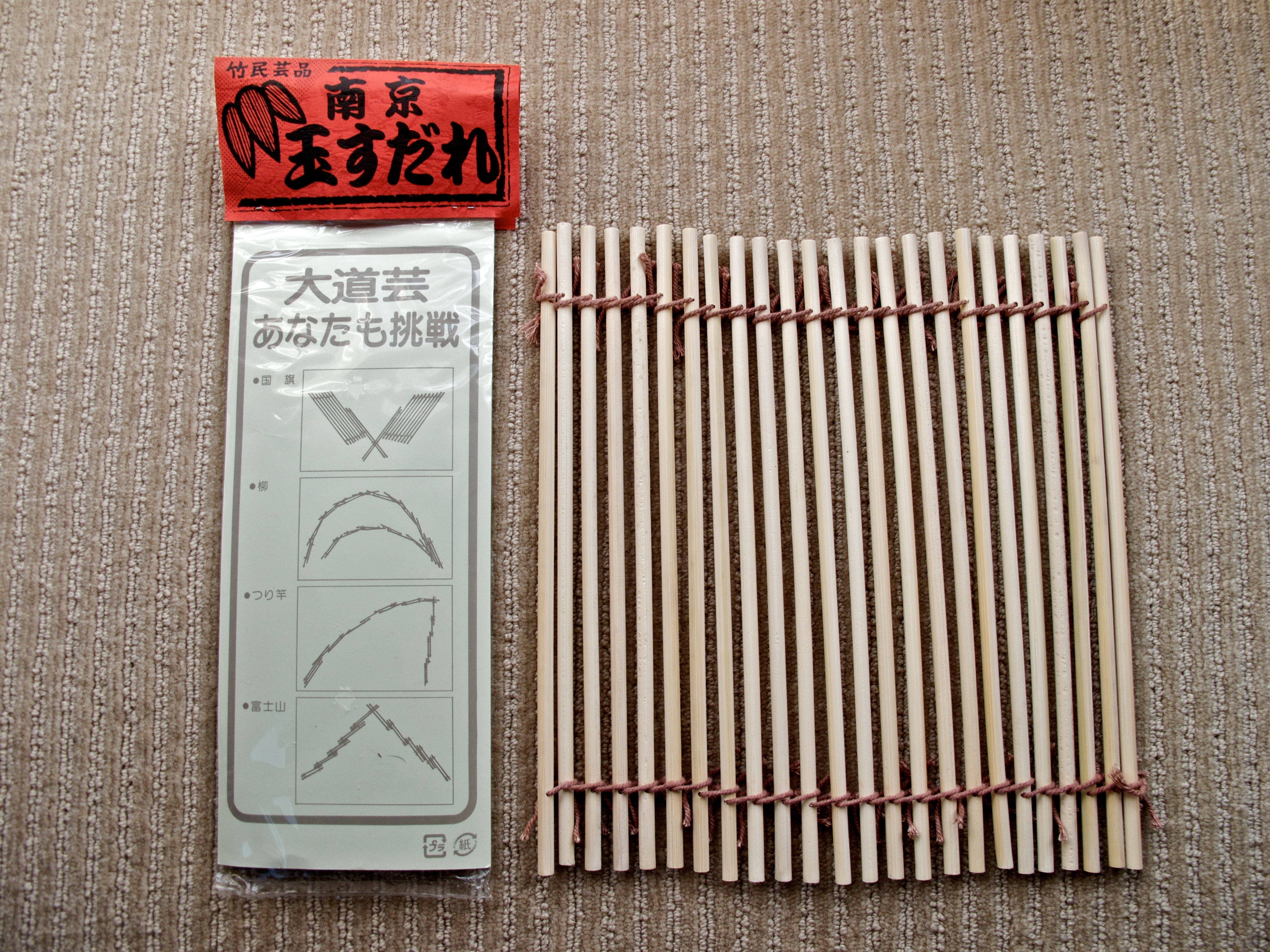 Nankin Tamasudare Nanking Tamasudare Nanjing Tamasudare